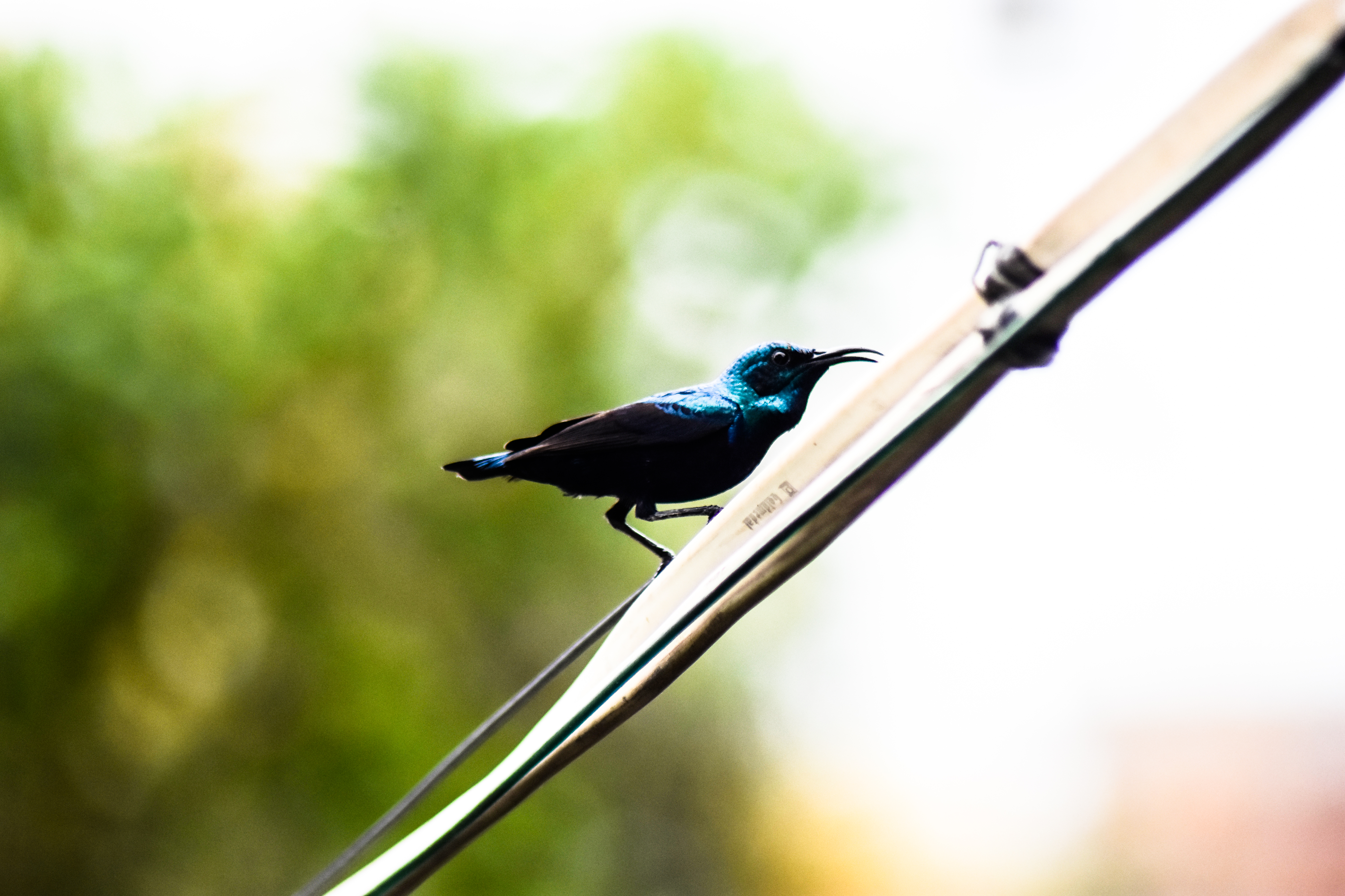 Loten's sunbird (Cinnyris lotenius) at Guntur, Andhra Pradesh